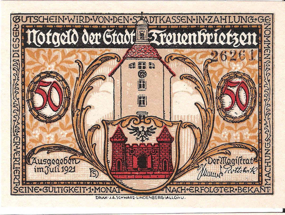 local emergency money, Treuenbrietzen 1921